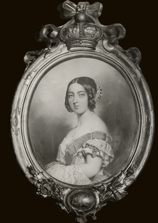 "La Reine Victoria" (Queen Victoria) - Pastel painting - Monochromatic reproduction.